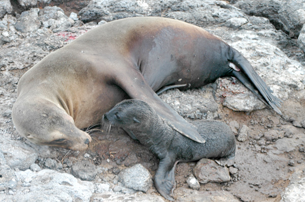 Sea Lion mother and pup, Plaza Island, Galapagos Islands, Ecuador. Image taken by Clark Anderson/Aquaimages.